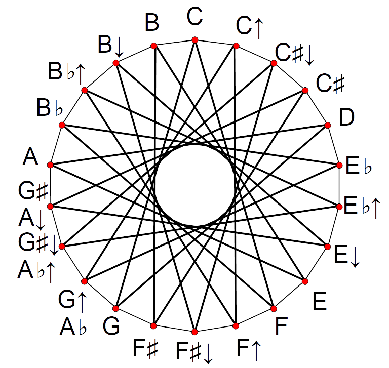 The circle of fifths in w:22 equal temperament as a star in the chromatic circle.